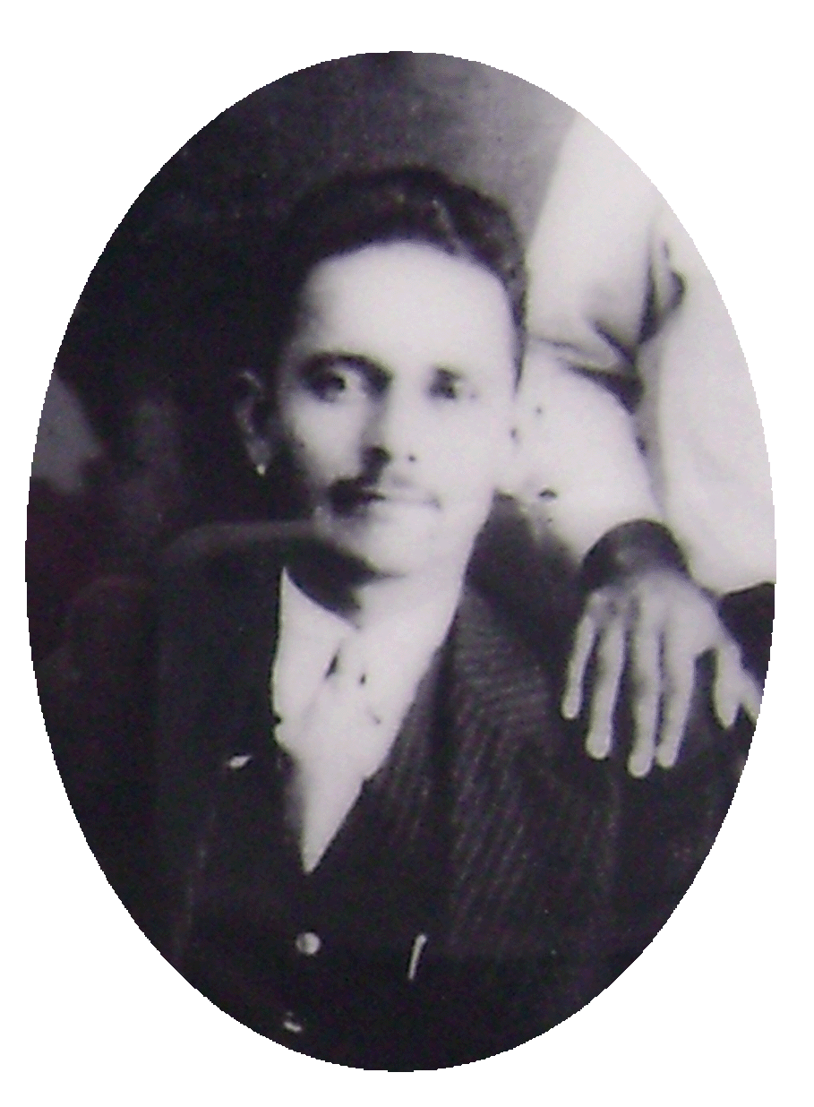 This is a picture of Senator of the Republic Feliciano Radilla Ruíz who was born in Atoyac de Alvarez